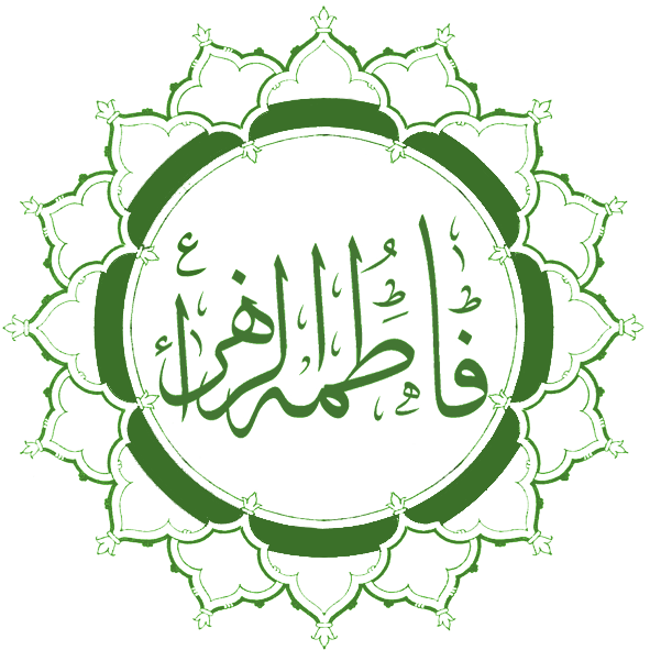 Arabic calligraphy with the name of Fatimah, a daughter of the prophet Muhammad.